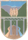 Coat of arms of the former Srbinovo Municipality, Macedonia.